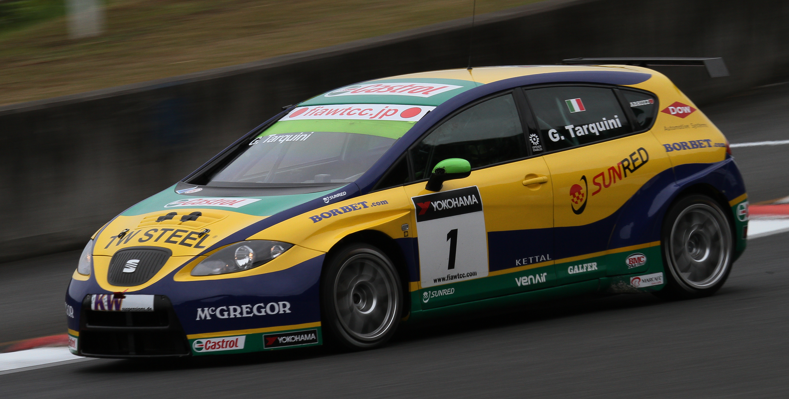 World Touring Car Championship 2010 Race of Japan: Gabriele Tarquini (SR-Sport) during the 1st free practice session on Saturday.